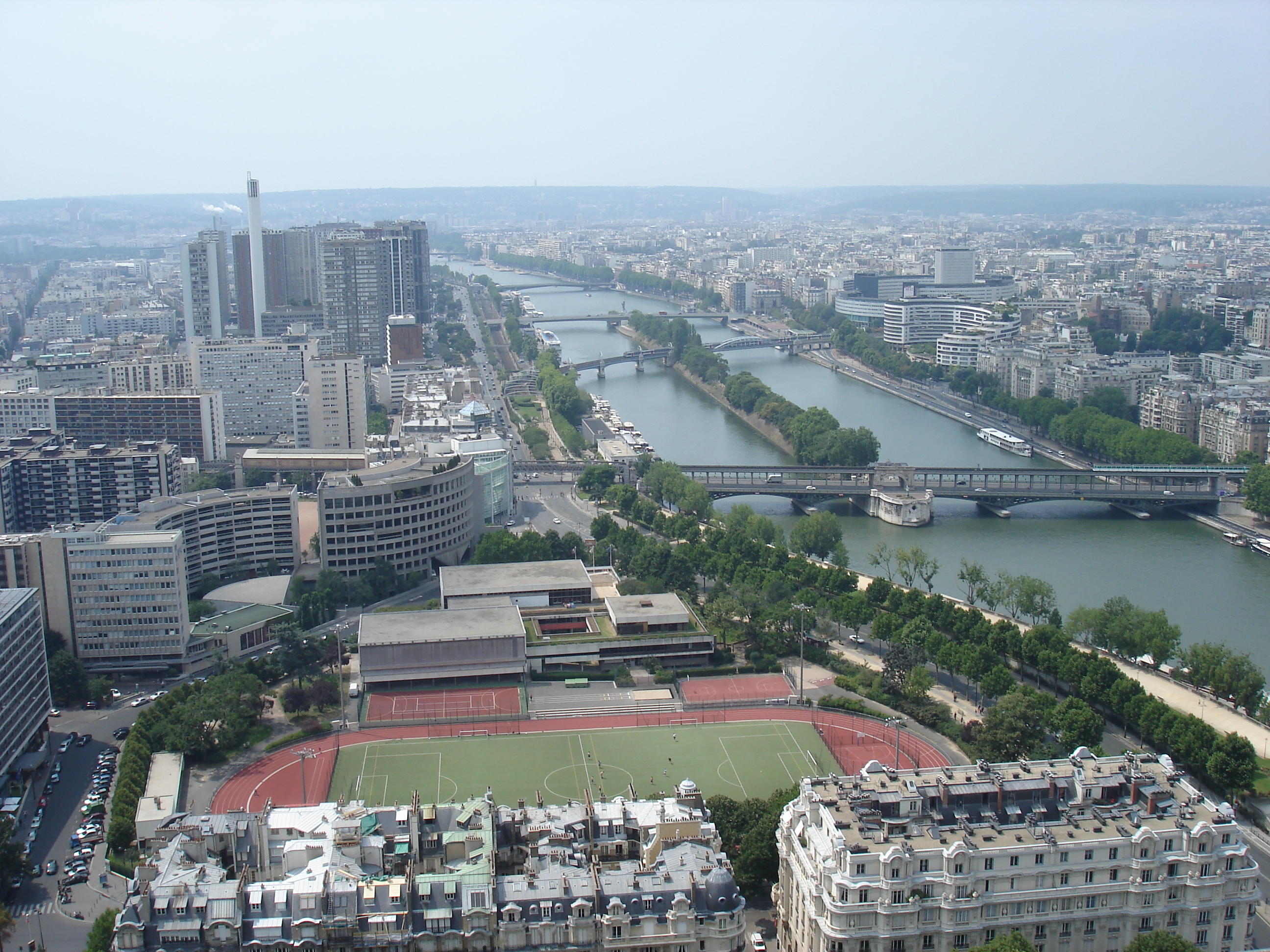 View from the second Floor of the Eiffel Tower, showing the left bank of the Seine river with the centre sportif Émile Anthoine, the Australian Embassy in Paris and a remote view of the Front de Seine quarter in Paris, Region of Île-de-France, France.Please note that the Australian Embassy (no FOP) ist not the main purpose of this photography.